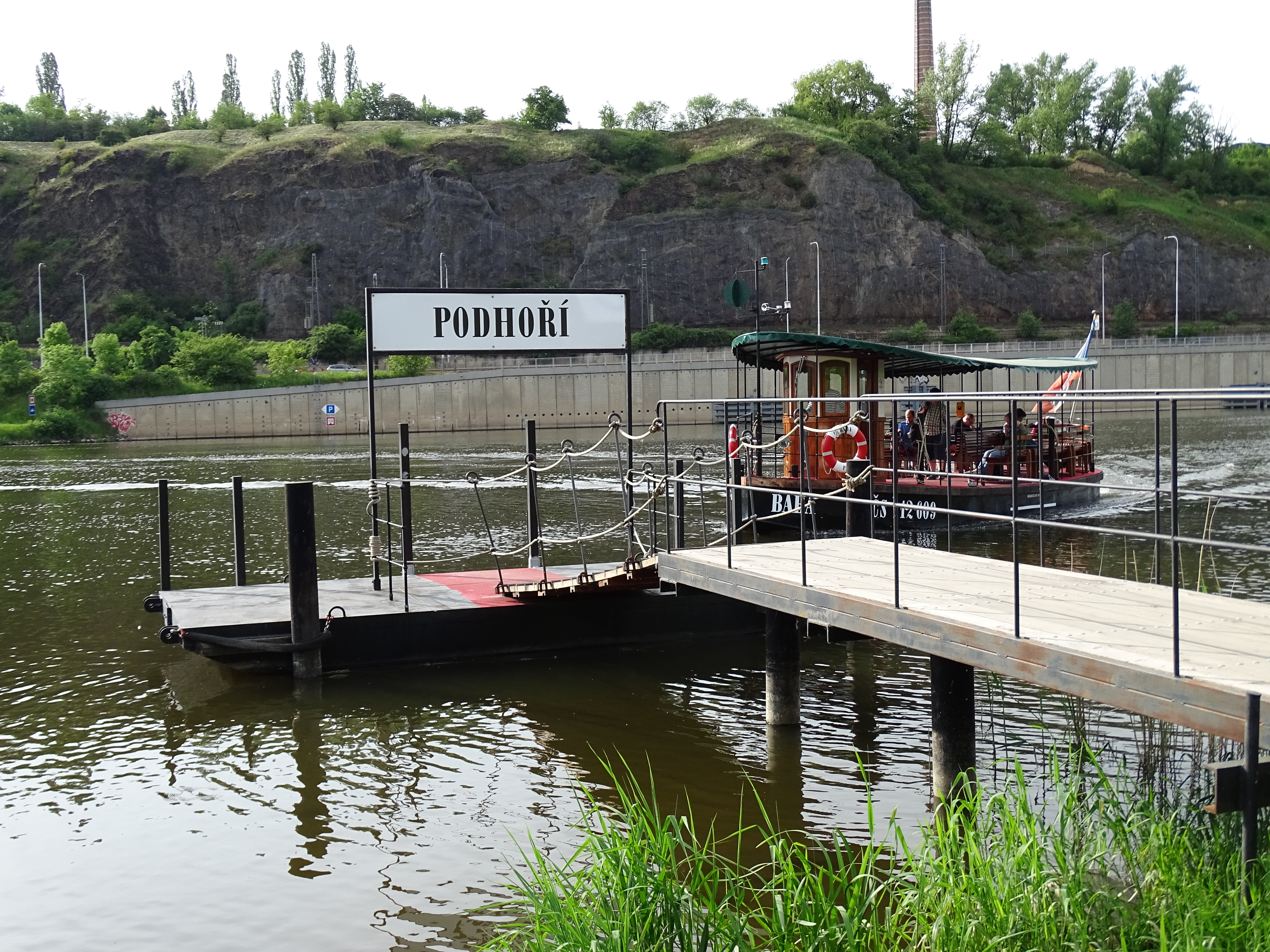 Prague-Troja, Czechia, Podhoří, a ferry.